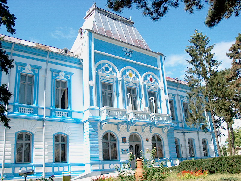 The city hall of Roșiorii de Vede, historical building.